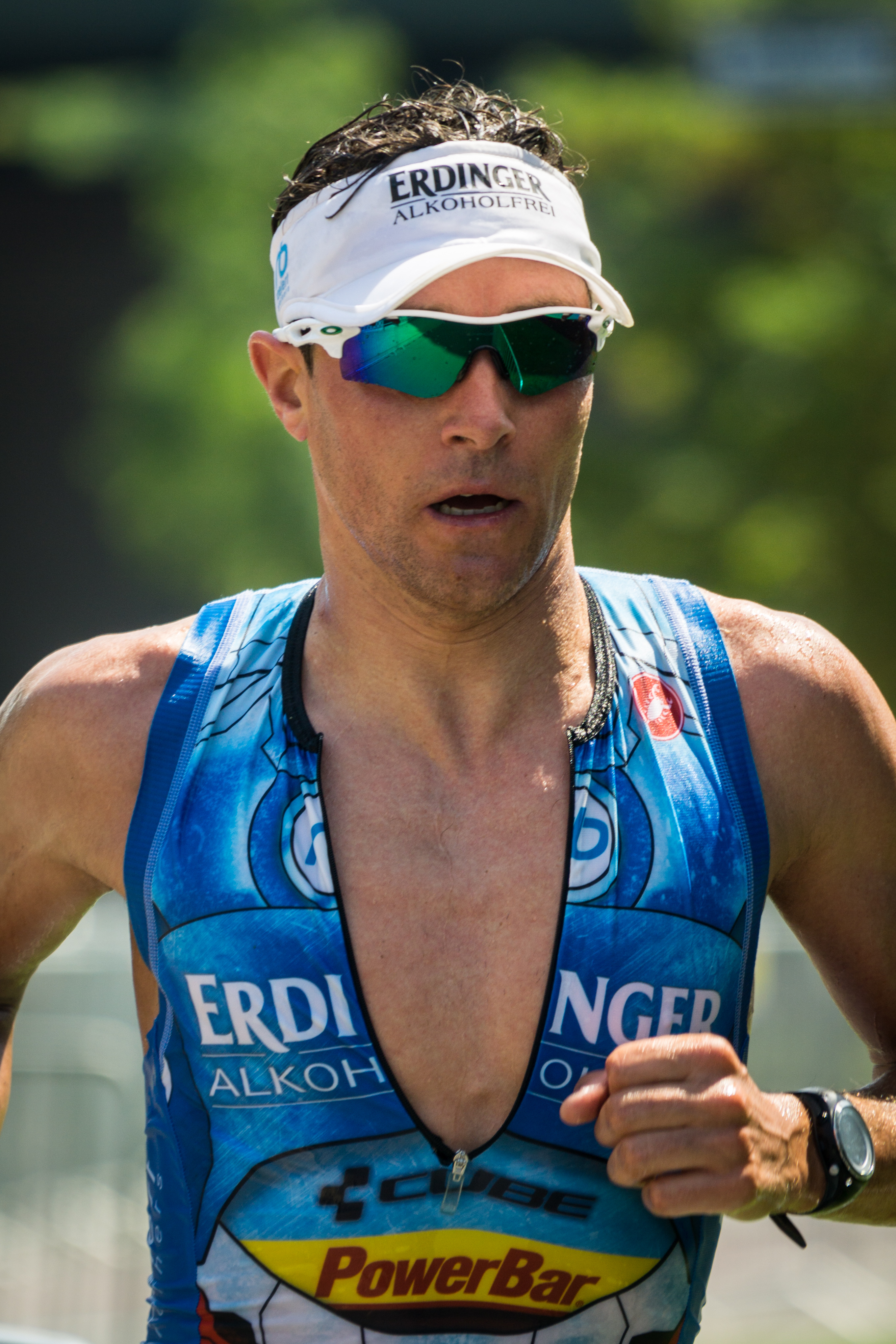 Andreas Raelert at the 2015 Ironman European Championship in Frankfurt am Main.